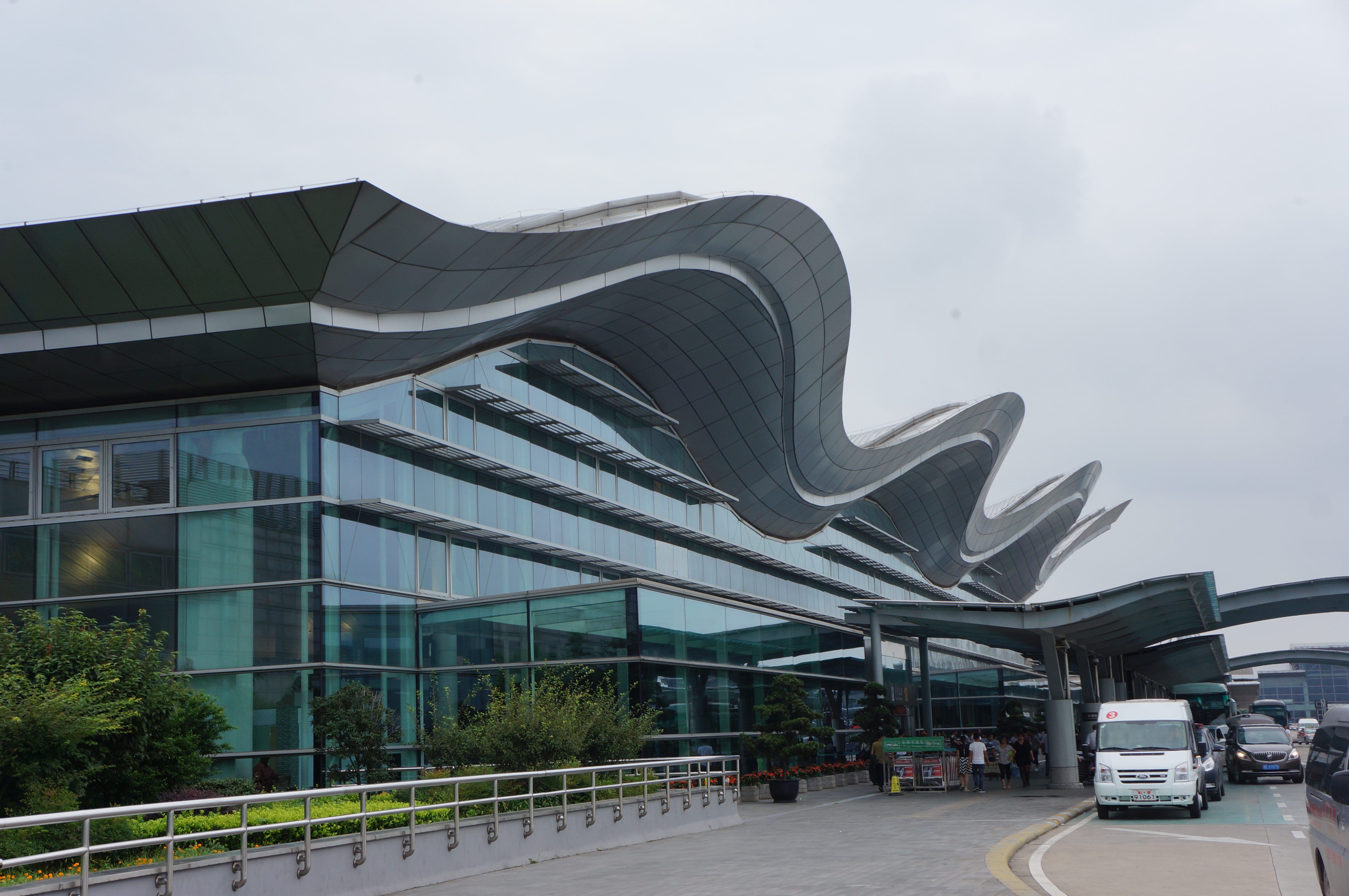 201607 T3 (CZ MF Terminal) of HGH